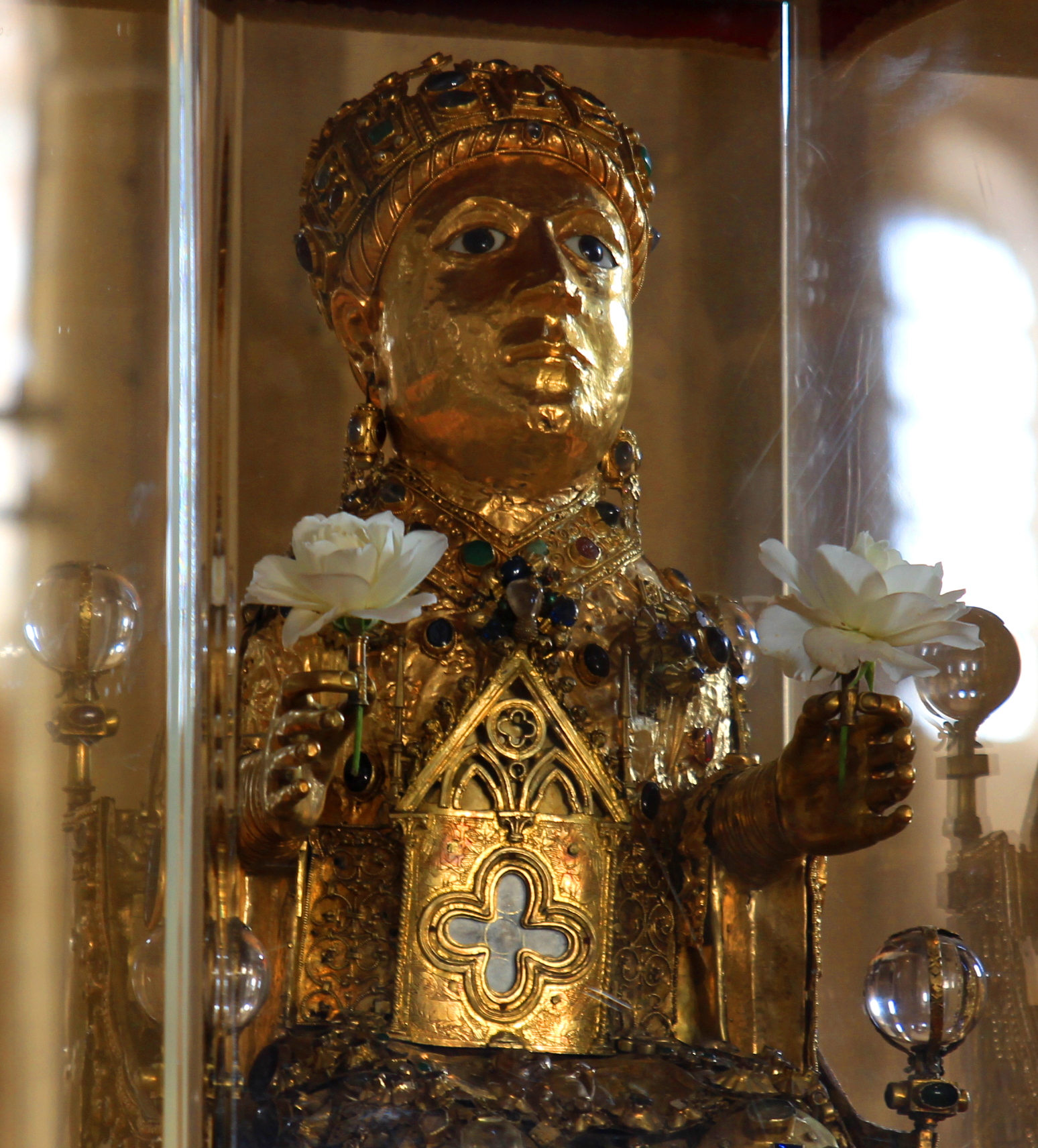 Golden statue reliquary of St. Foy, from the treasury of Conques. Shown here in the Abbey-Church of Saint-Foy on Saint-Foy day, in October 2013. Improved version (contrast, saturation, cropped) of file Statue reliquaire de Sainte Foy de Conques.jpg.